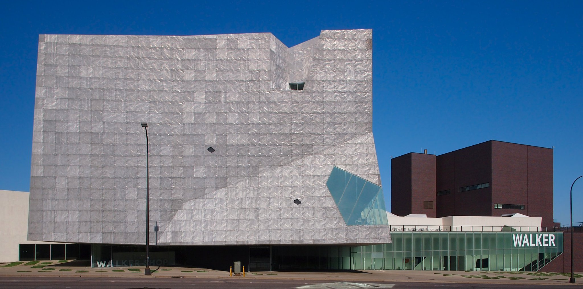 Walker Art Center, 1750 Hennepin Ave, Minneapolis, Minnesota. Viewed from the east.